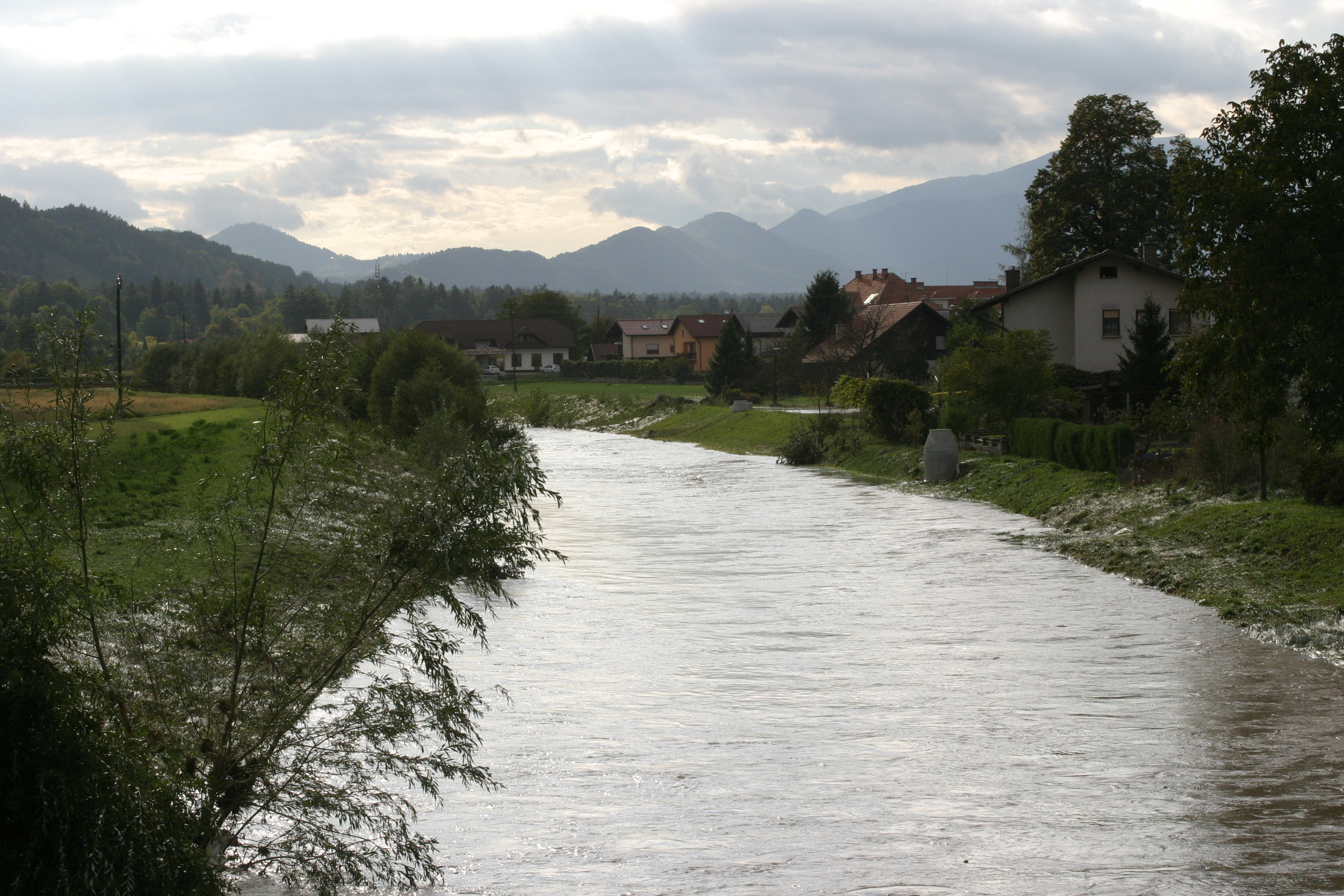 Bolska river at the town of Prebold